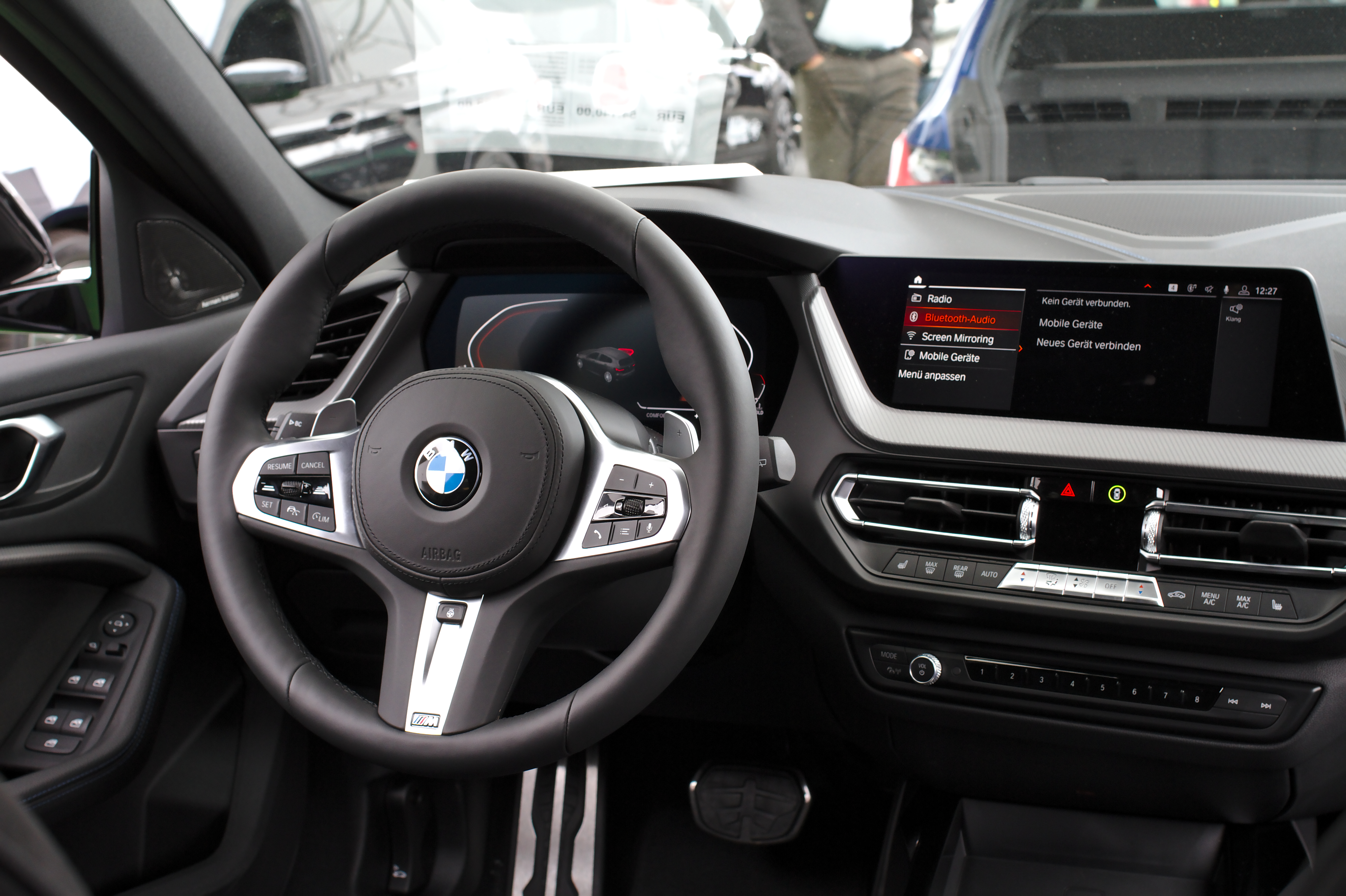 BMW_F40 at Leonberger Autoschau 2019